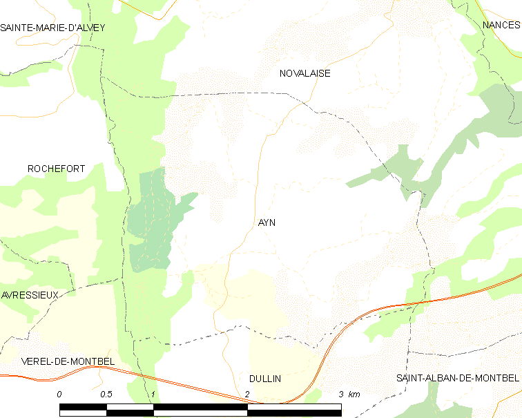 Map of French municipality